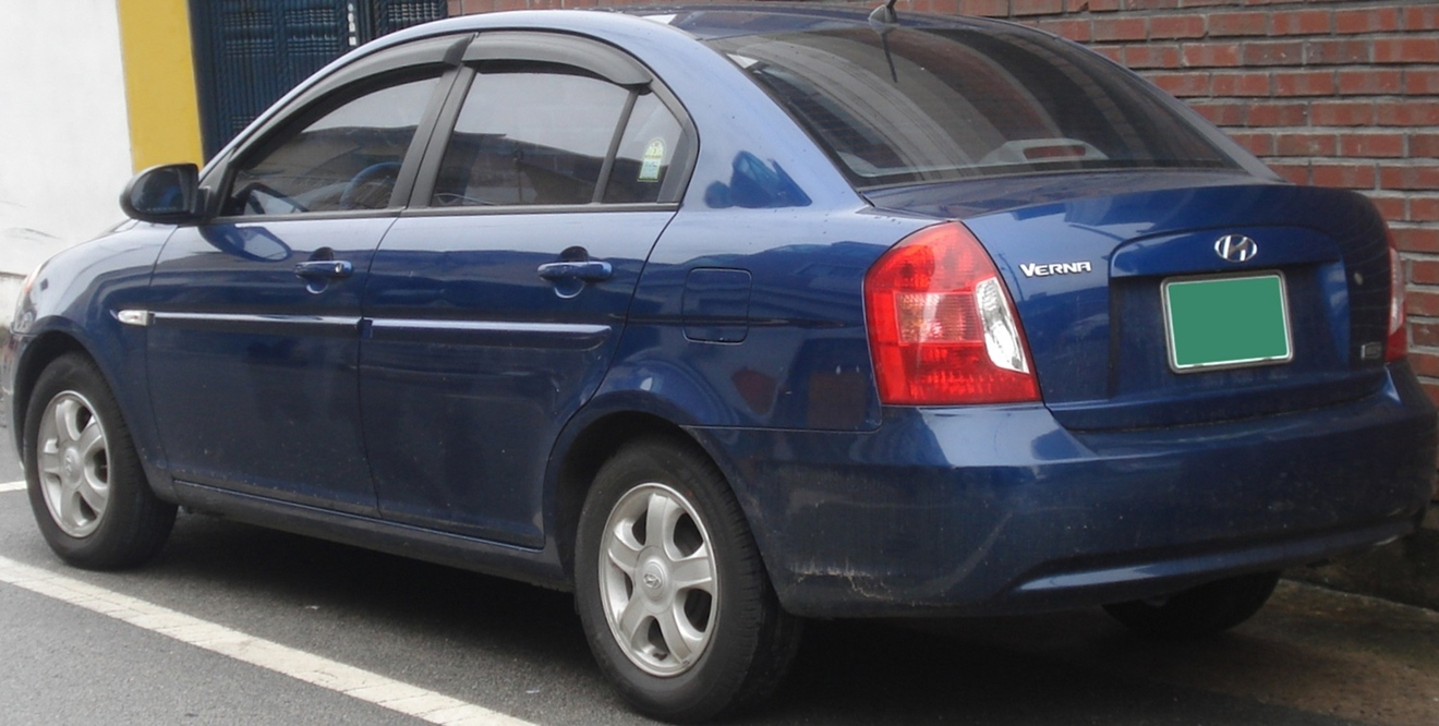 Hyundai Verna